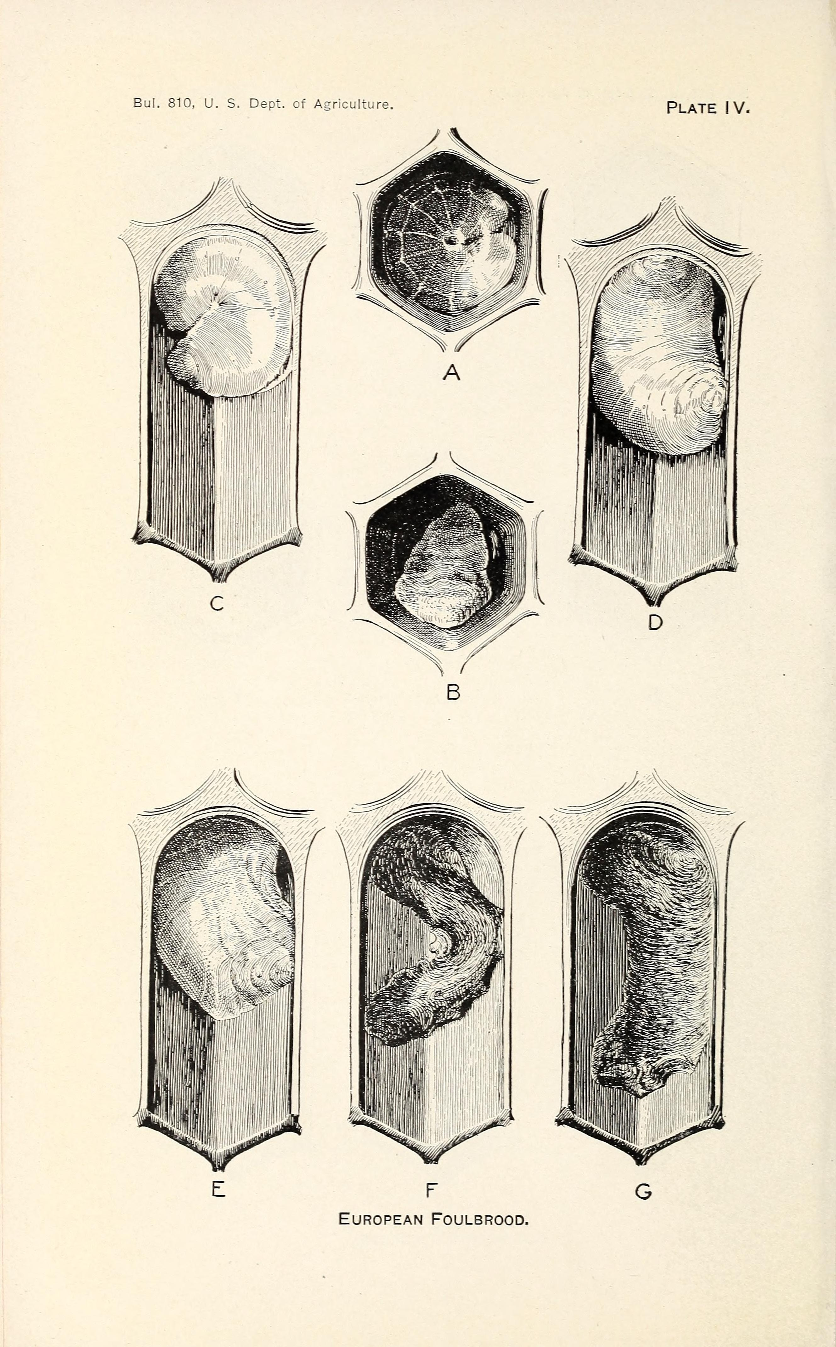 European foulbrood /